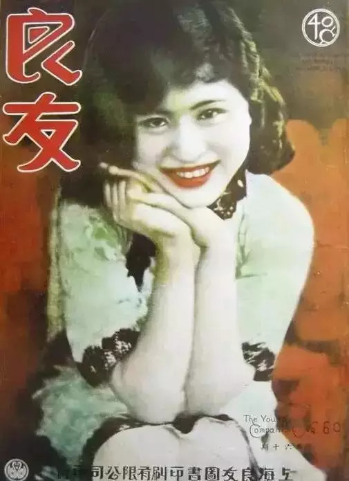 Cover of Liangyou magazine #60 featuring Guo Xiuyi (郭秀仪), a pioneer of the Chinese women's movement and wife of Huang Qixiang (黄琪翔).